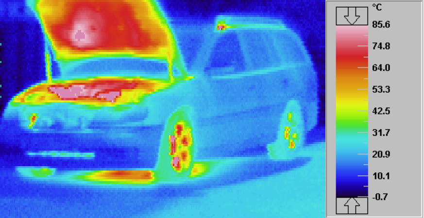 Infrared photography of an Opel Omega station wagon. Temperature values are not exact, since emissivity equal unity was assumed for all surfaces.